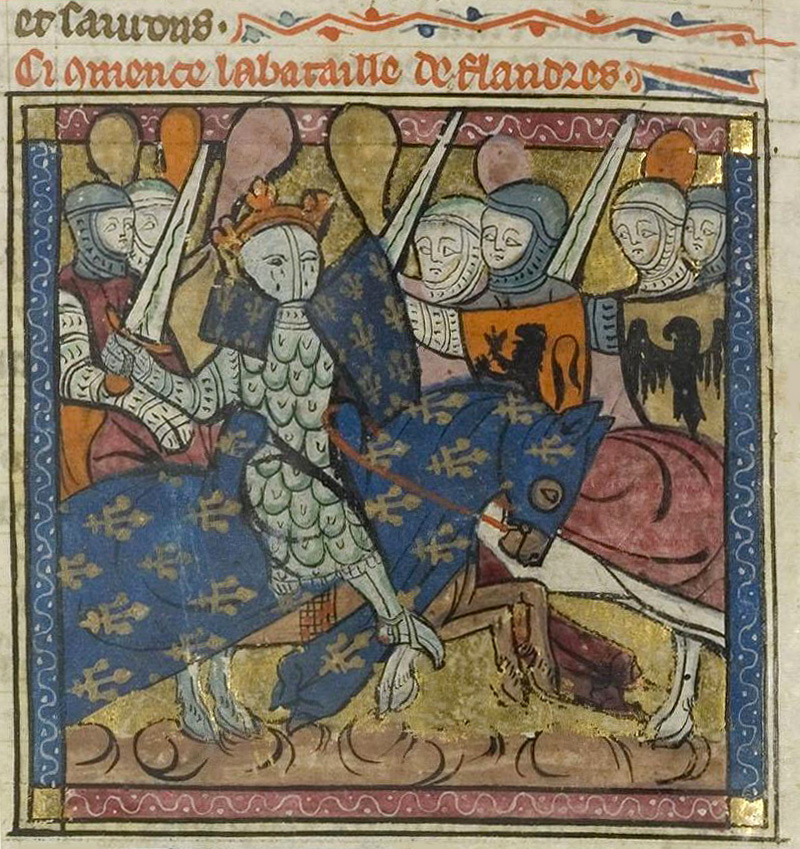 Battle of Bouvines.